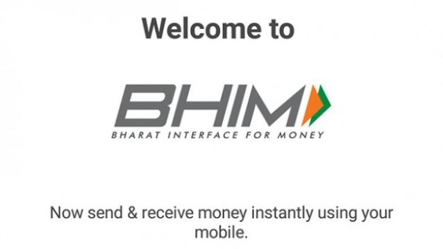 Bhim App Logo